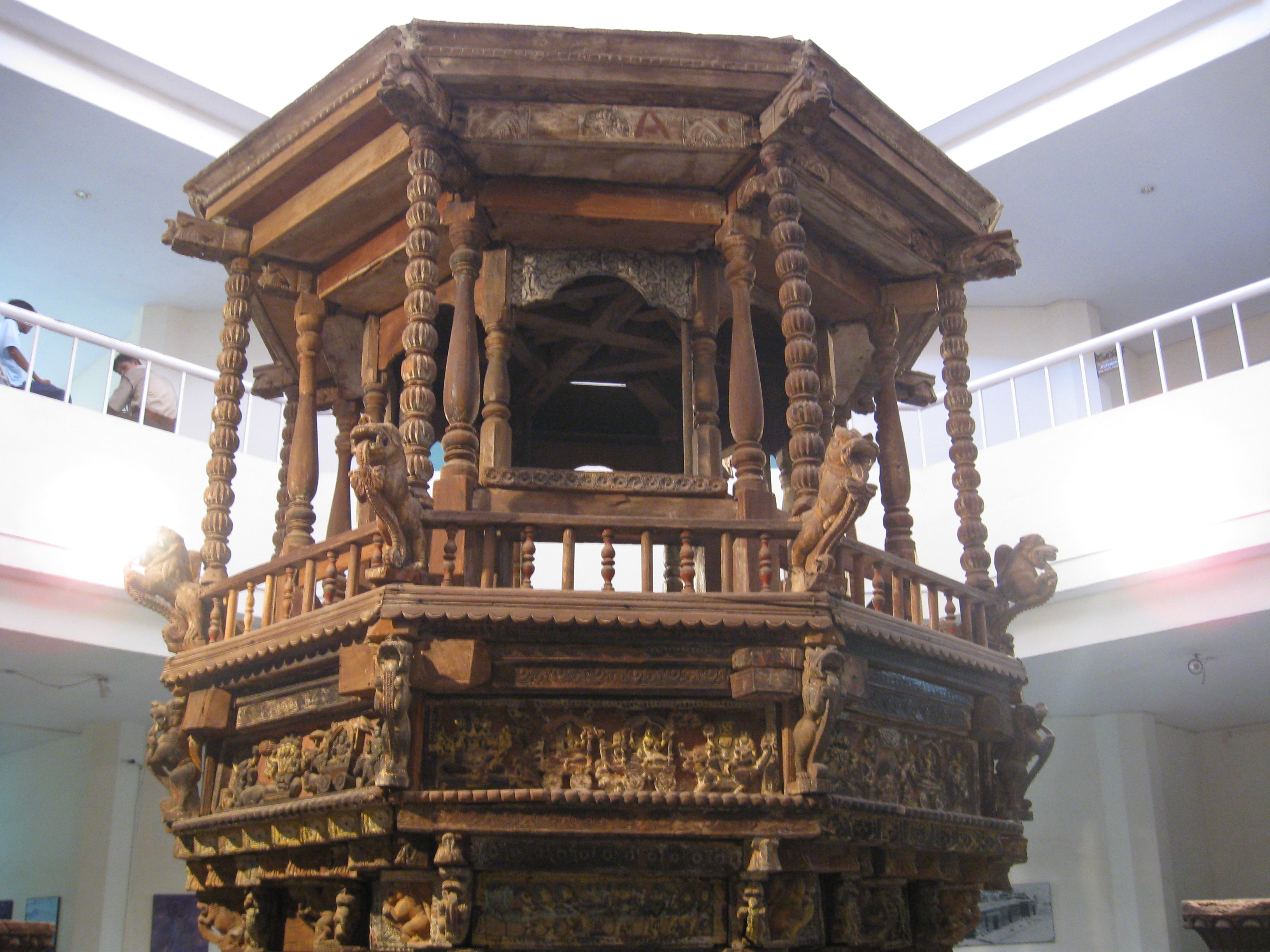 Chariot used during Portuguese Rule in Goa